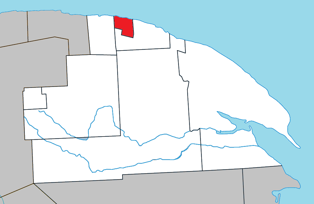 Location of Petite-Vallée, Quebec within La Côte-de-Gaspé Regional County Municipality.